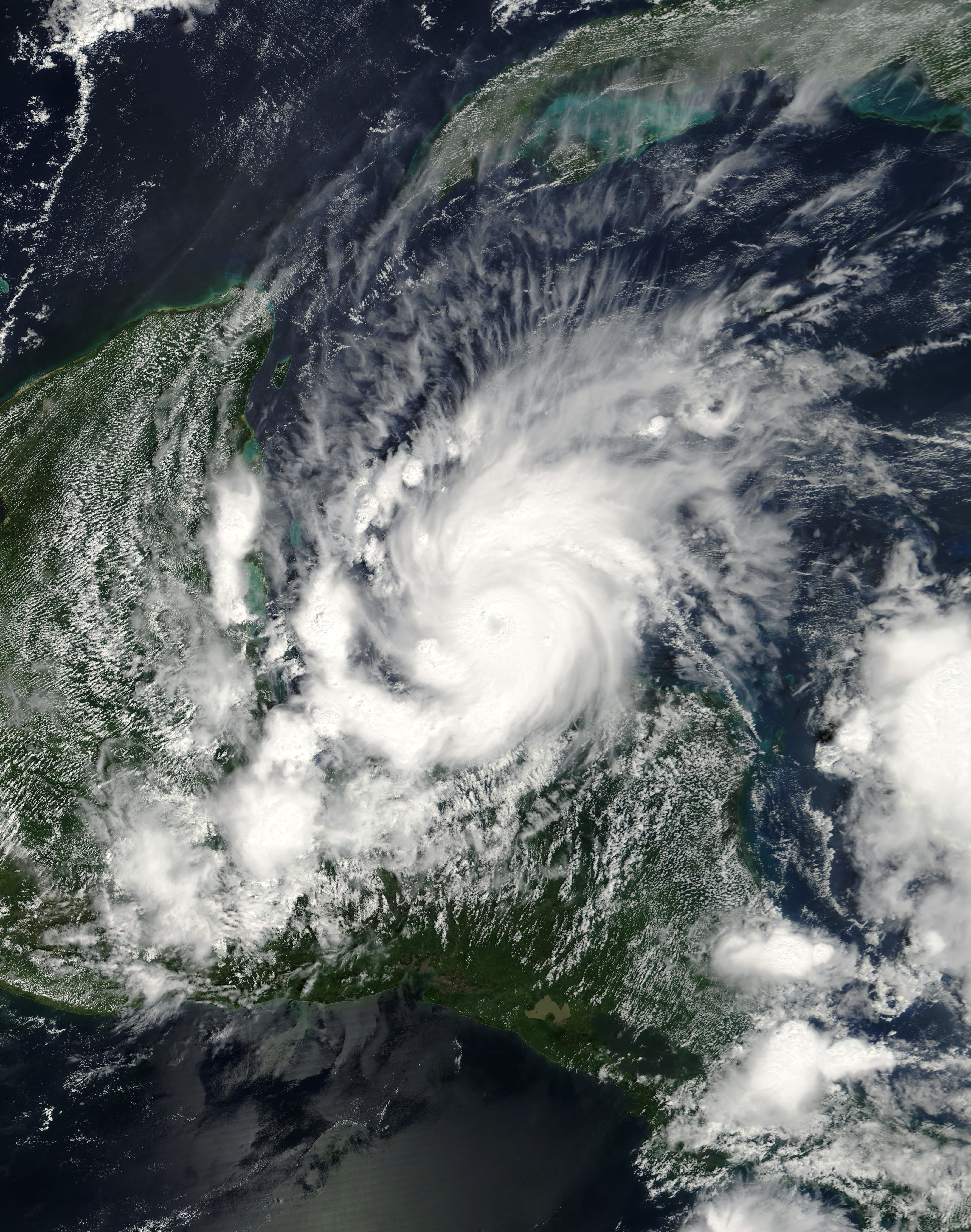 Hurricane Iris on October 8, 2001